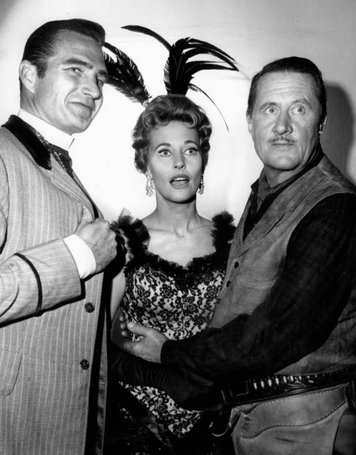 Photo of Eric Fleming as Gil Favor and guest stars Lola Albright and Allyn Joslyn from the television program Rawhide.